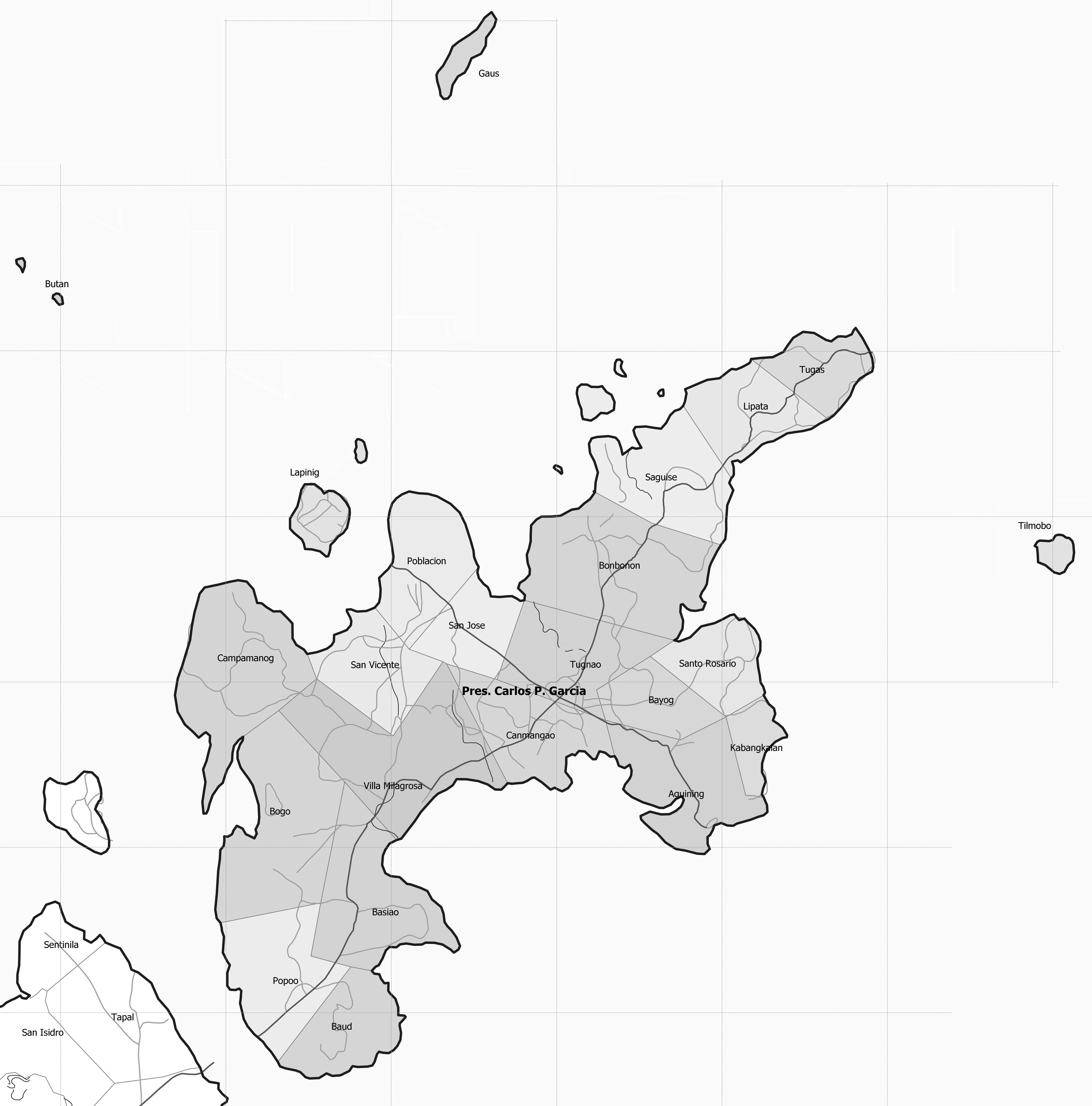 Detailed map of President. Carlos P. Garcia, Bohol showing barangays and islands